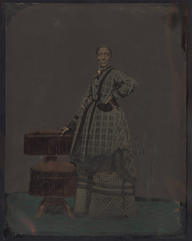 Hand-tinted daguerreotype of a well dressed African-American woman standing with her arm on a cushioned chair; back caption reads "Marguerite, a former slave." c. 1880 – The Beth and Stephan Loewentheil Family Photography Collection, Cornell University